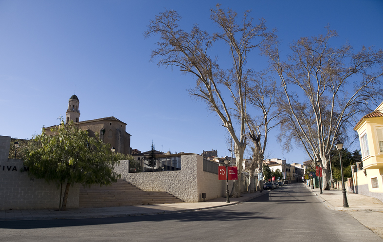 Vallmoll landscape (Catalonia, Spain)